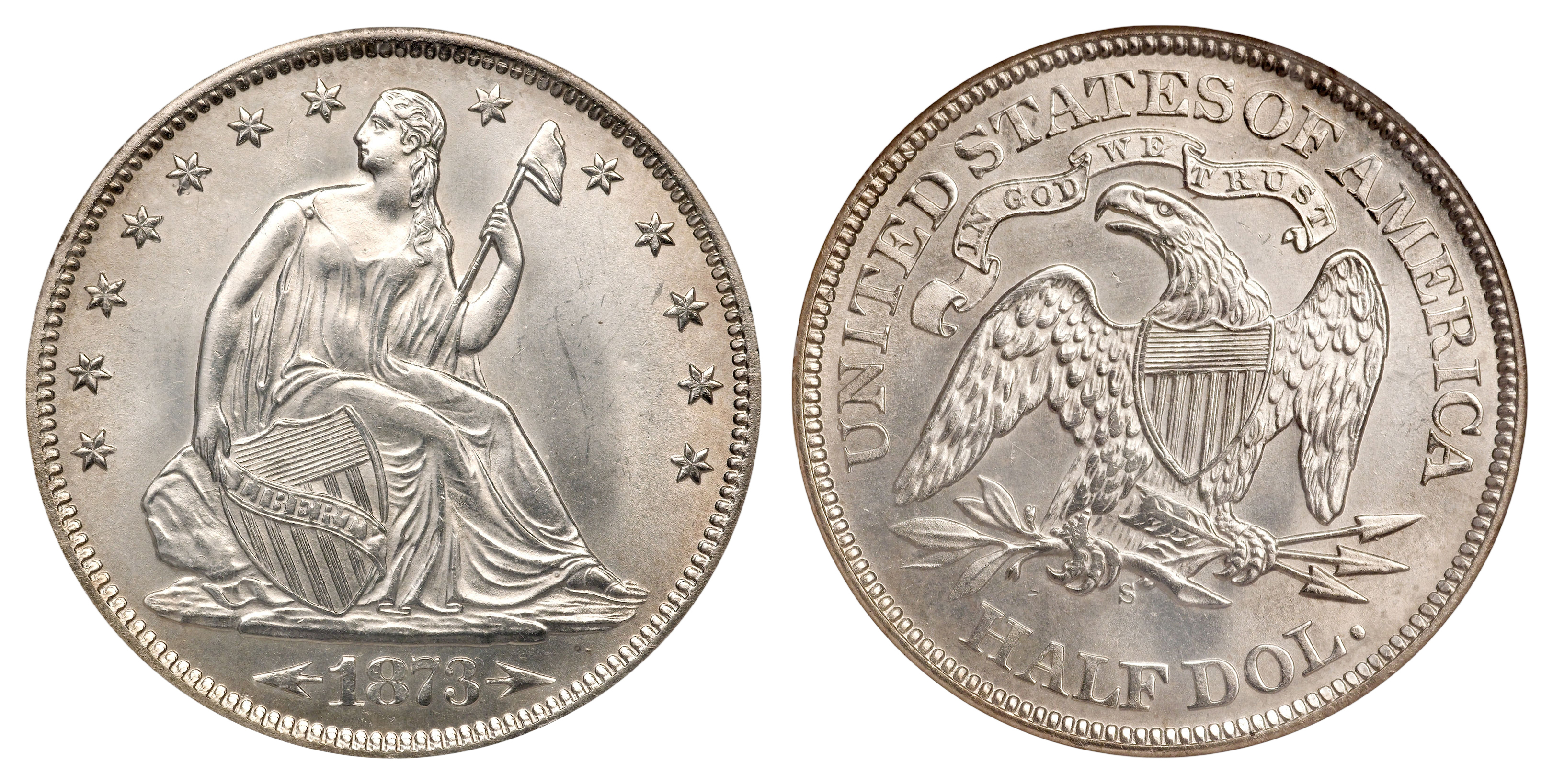 1873-S 50C Arrows(1124-2474)